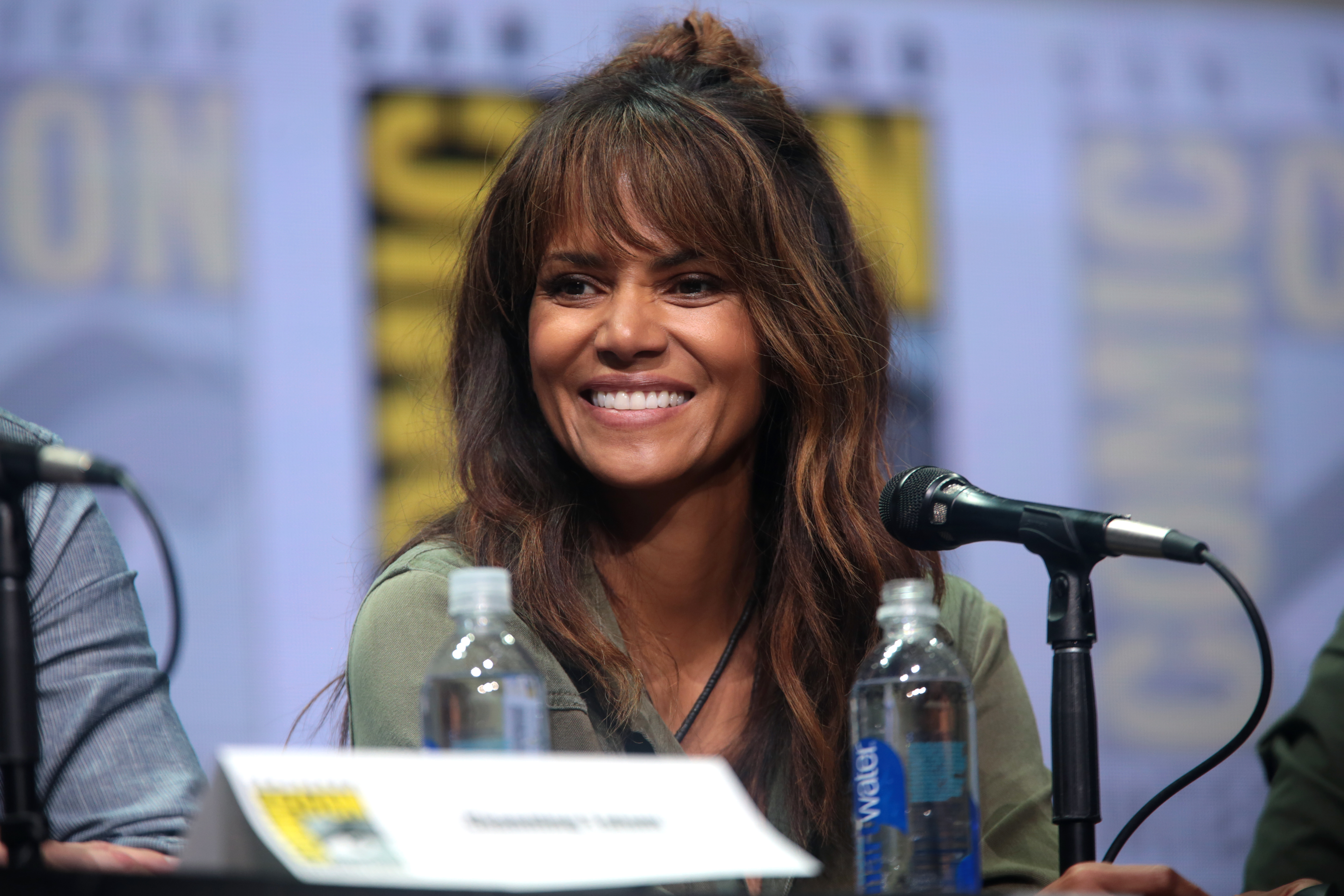 Halle Berry speaking at the 2017 San Diego Comic Con International, for "Kingsman: The Golden Circle", at the San Diego Convention Center in San Diego, California.